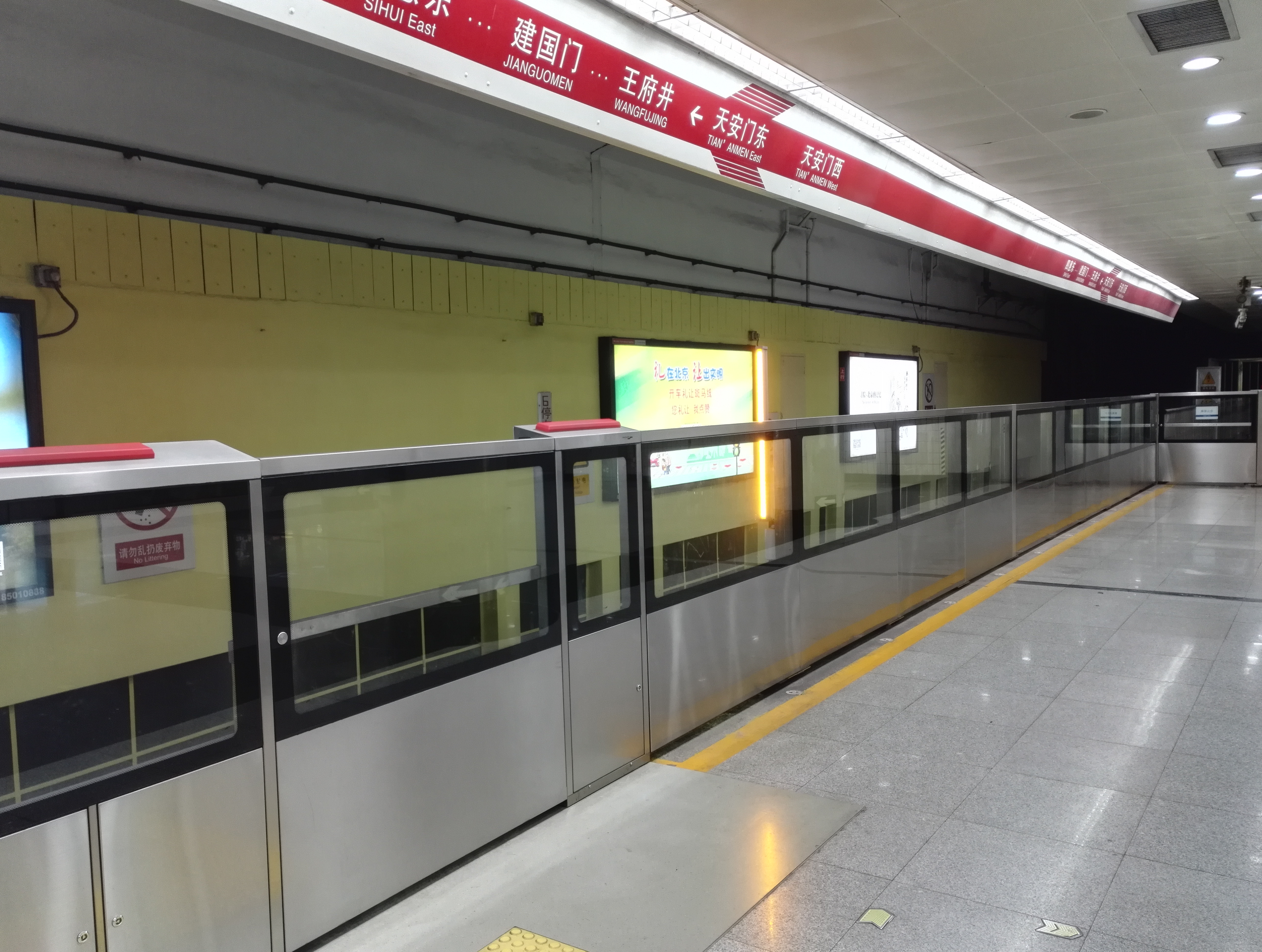 End Platform of Tian'anmen East Station